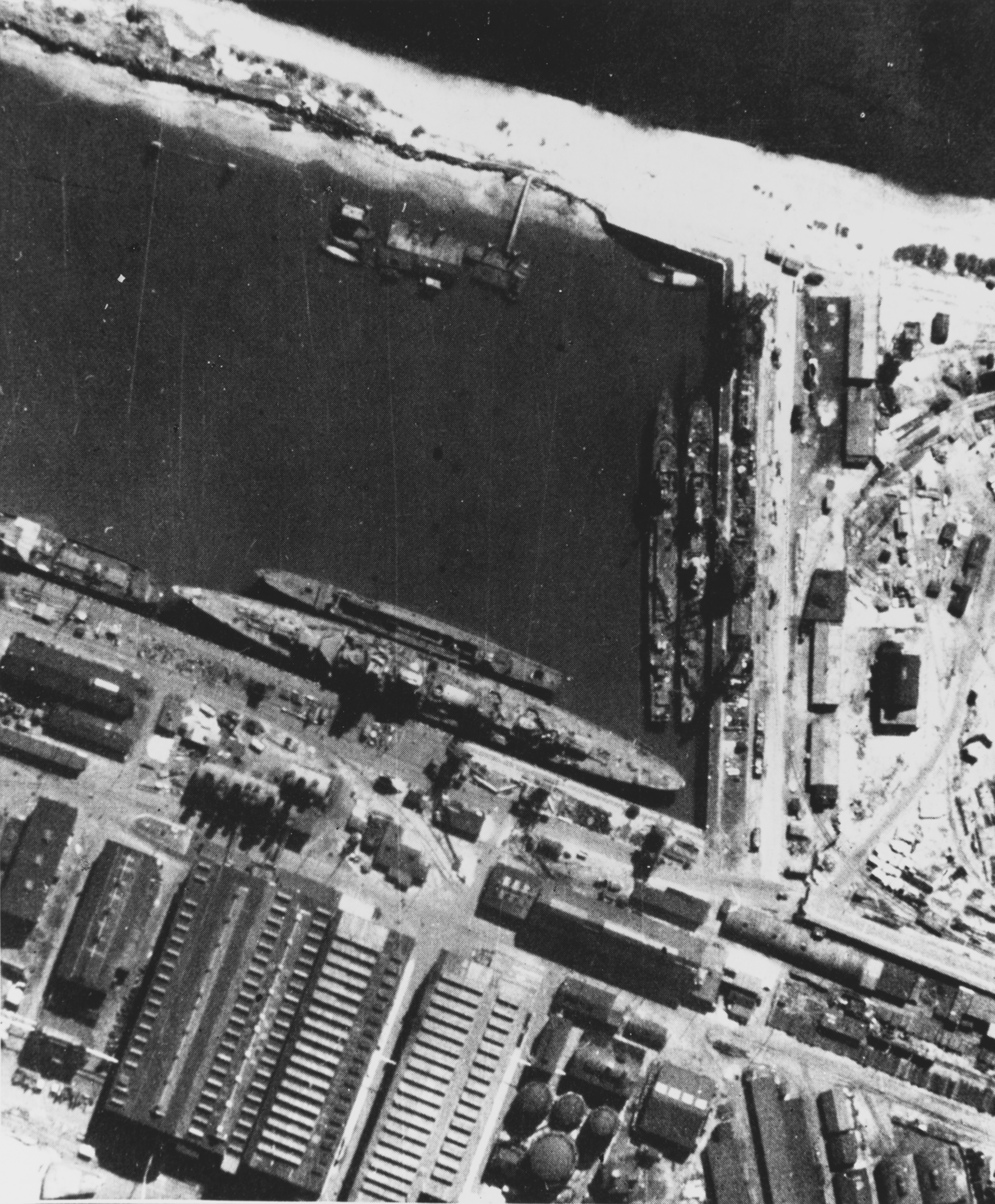 Fine screen halftone reproduction of a British Royal Air Force reconnaissance photograph of the Westhaven basin at Bremen, Germany, taken 8 May 1942. Ships present include the nearly complete heavy cruiser Seydlitz (launched in 1939 but never finished) and three destroyers. The destroyer alongside Seydlitz is probably Z 34, which had been launched on 5 May, three days before the photograph was taken. Her machinery spaces are still open and no guns appear to be on board. The other two destroyers, moored side-by-side at the head of the basin, are probably Z 32 (1942–1944), inboard with smokestacks in place, and Z 33 (1943–1946, later Soviet Provornyy), outboard with smokestacks not yet installed.